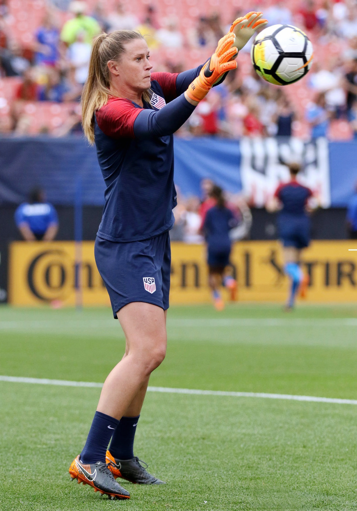 Alyssa Naeher warms up before a friendly against China on June 12, 2018, at FirstEnergy Stadium in Cleveland, OH.